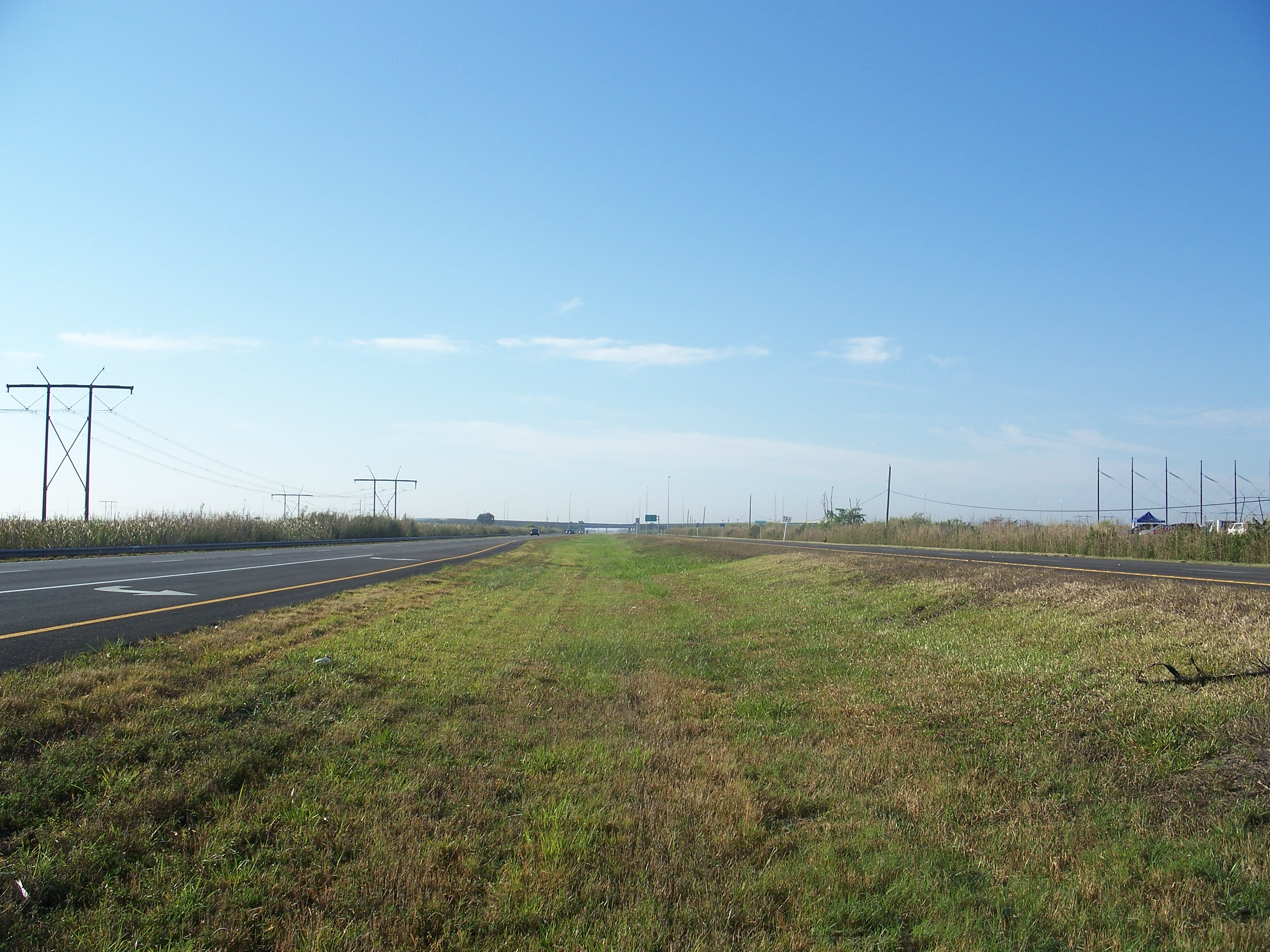 Andytown, Florida: US 27, near the I-75 intersection